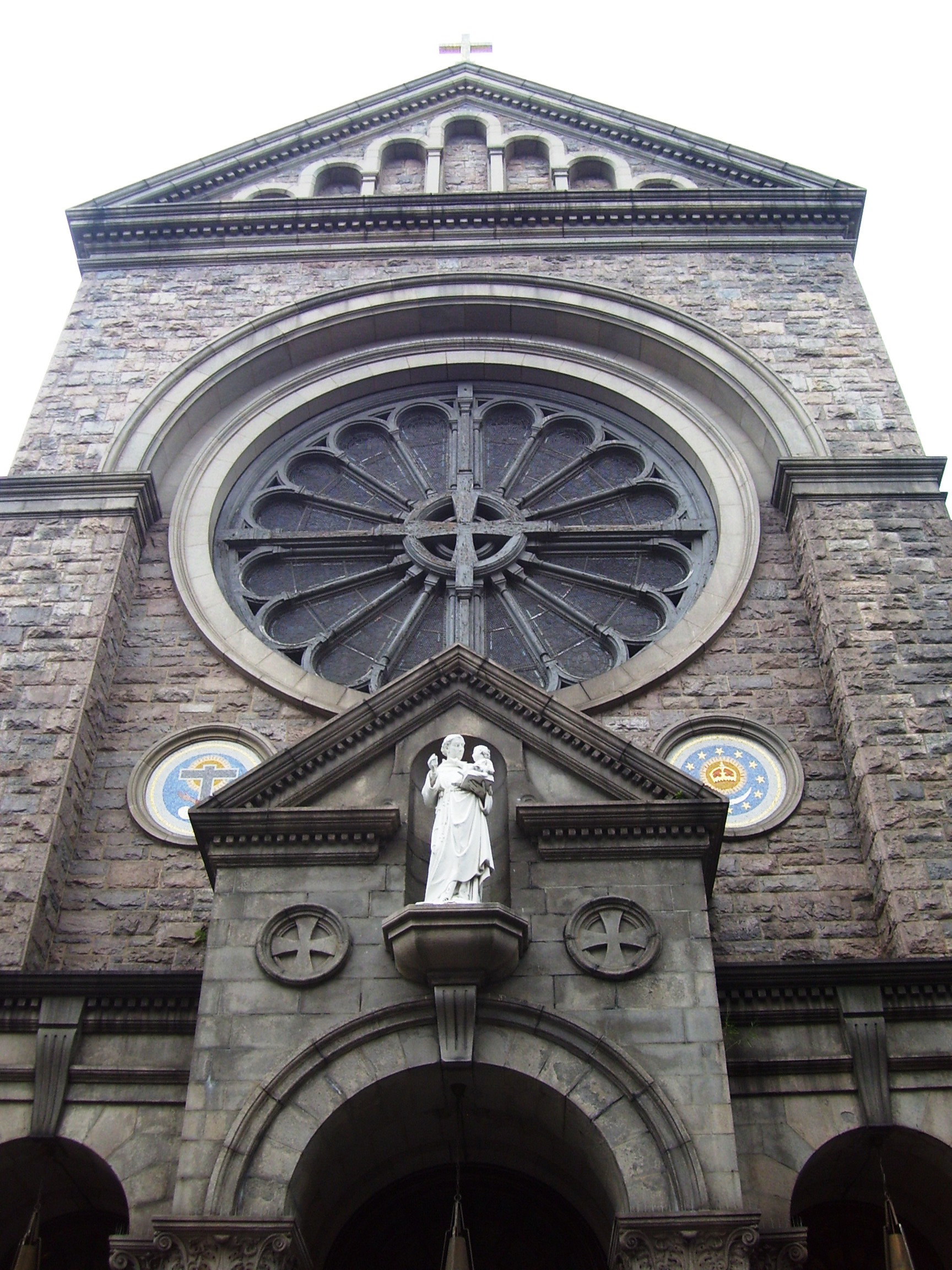 The Church of St. Anthony of Padua, located at 155 Sullivan Street near the corner of West Houston Street, in the South Village section of the Greenwich Village neighborhood of Manhattan, New York City, was built in 1886-88, and was designed by Arthur Crooks in the Romanesque Revival style. The Houston Street face of the building was originally blocked by tenement buildings, which were demolished when Houston Street was widened, exposing the undesigned facade. The church now uses this space as a garden.